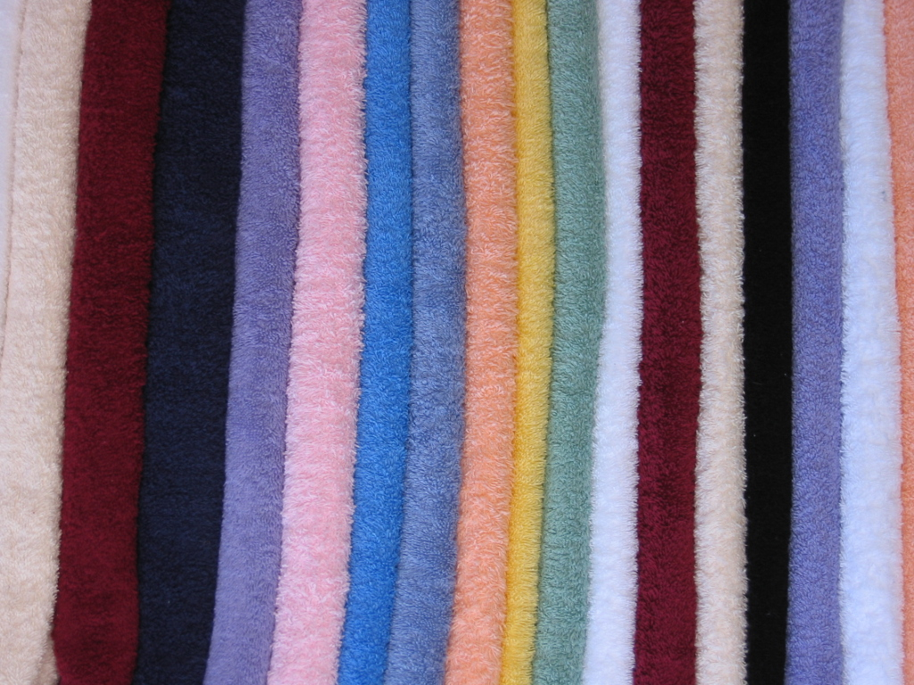 A picture of towels, taken by Doronef "You can wipe yourself with them, sit on them at the beach, cover yourself with it, or using them to whip your friends at the pool" --Doronef